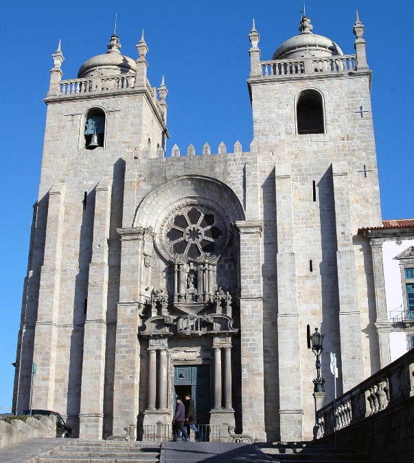 Dome of Porto or Cathedral of Porto – print screen of an existant snapshot on wikimedia, see source